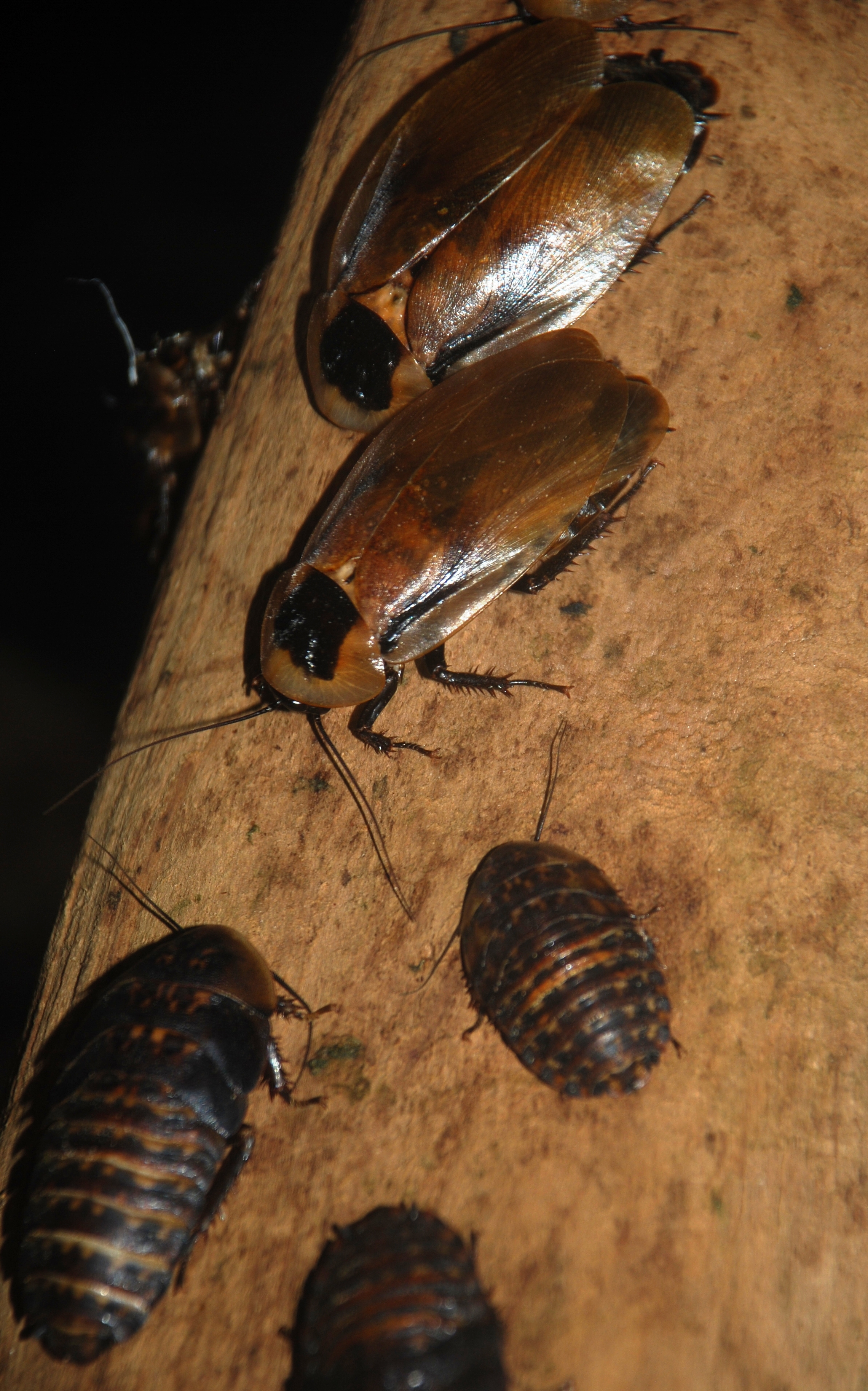 Invertebrates in Smithsonian National Zoological Park: Blaberus discoidalis Haitian cockroach